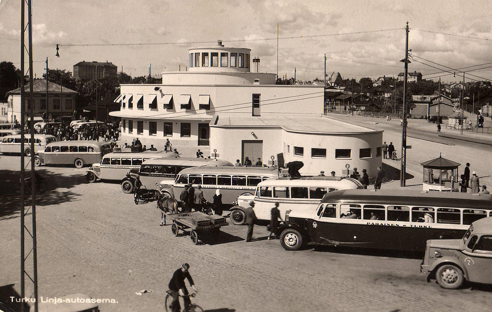 Turku bus station, Finland